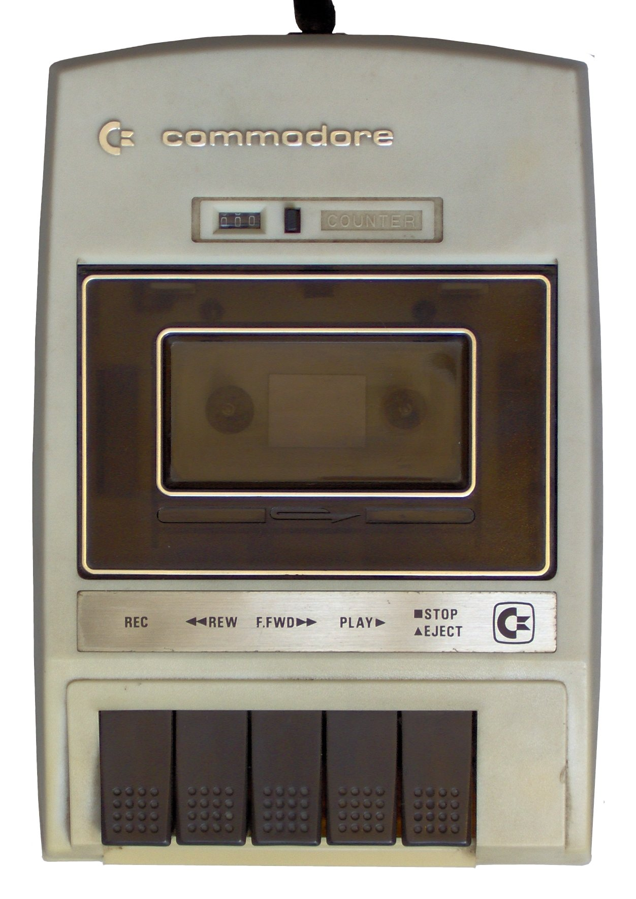 Commodore C2N Cassette, a tape drive for Commodore International's PET series of computers. Also compatible with the C64, C128 and VIC-20, being functionally identical to the later Datassette 1530. See:Image:Commodore-Datassette.jpg